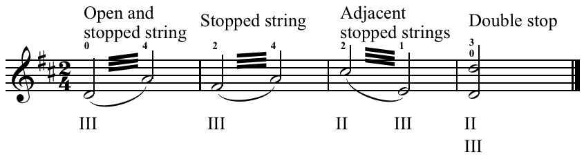 Violin tremolos on perfect fifth, minor third, and major sixth: fingerings indicated above staff (i=1, m=2, r=3, p=4), strings below (G=IV, D=III, A=II, E=I). Created by Hyacinth (talk) 07:41, 7 December 2010 using Sibelius 5.